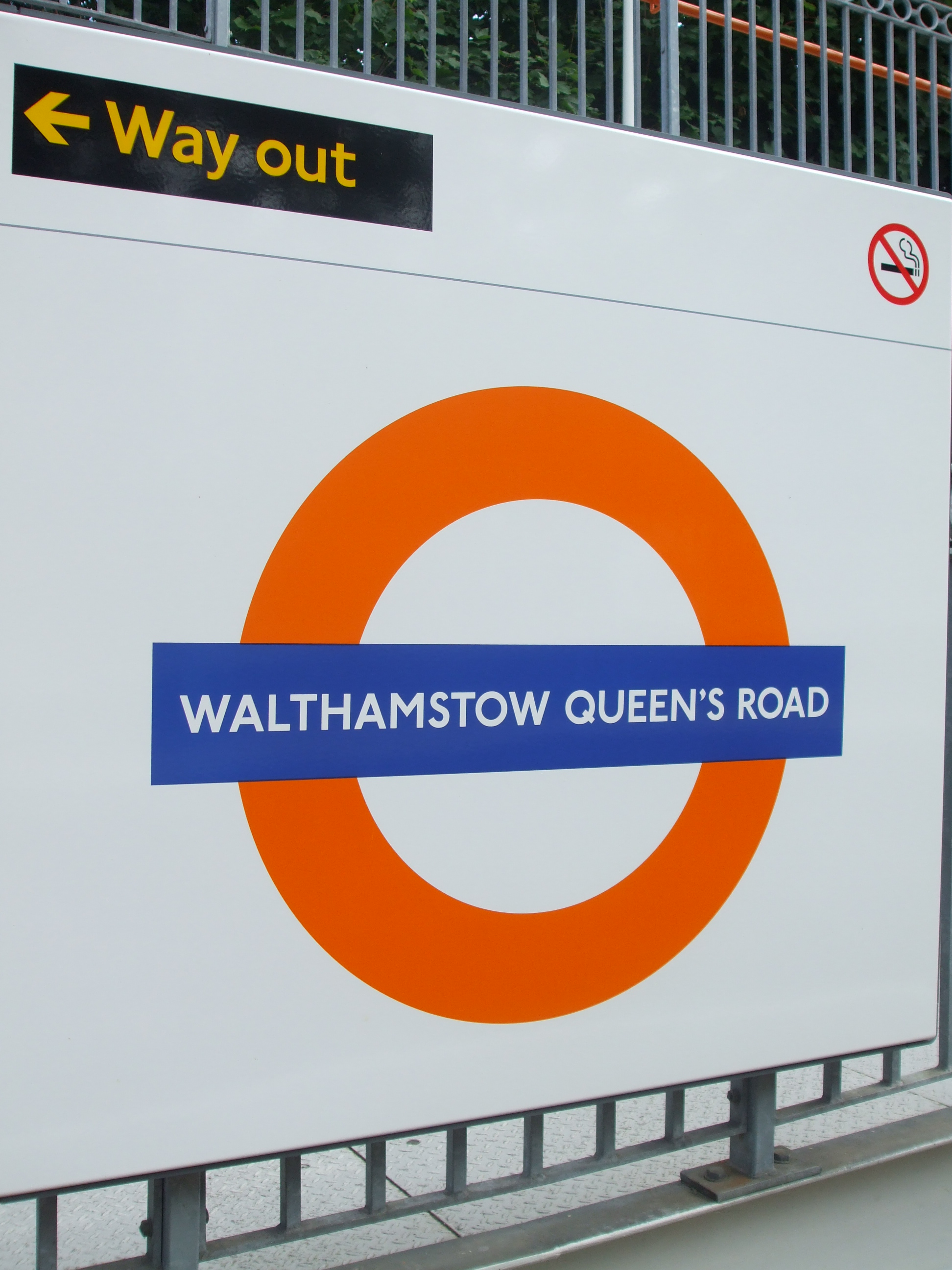 Walthamstow Queen's Road station platform roundel, in London Overground orange.